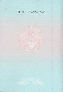 Observation Page of the Vietnamese Passport